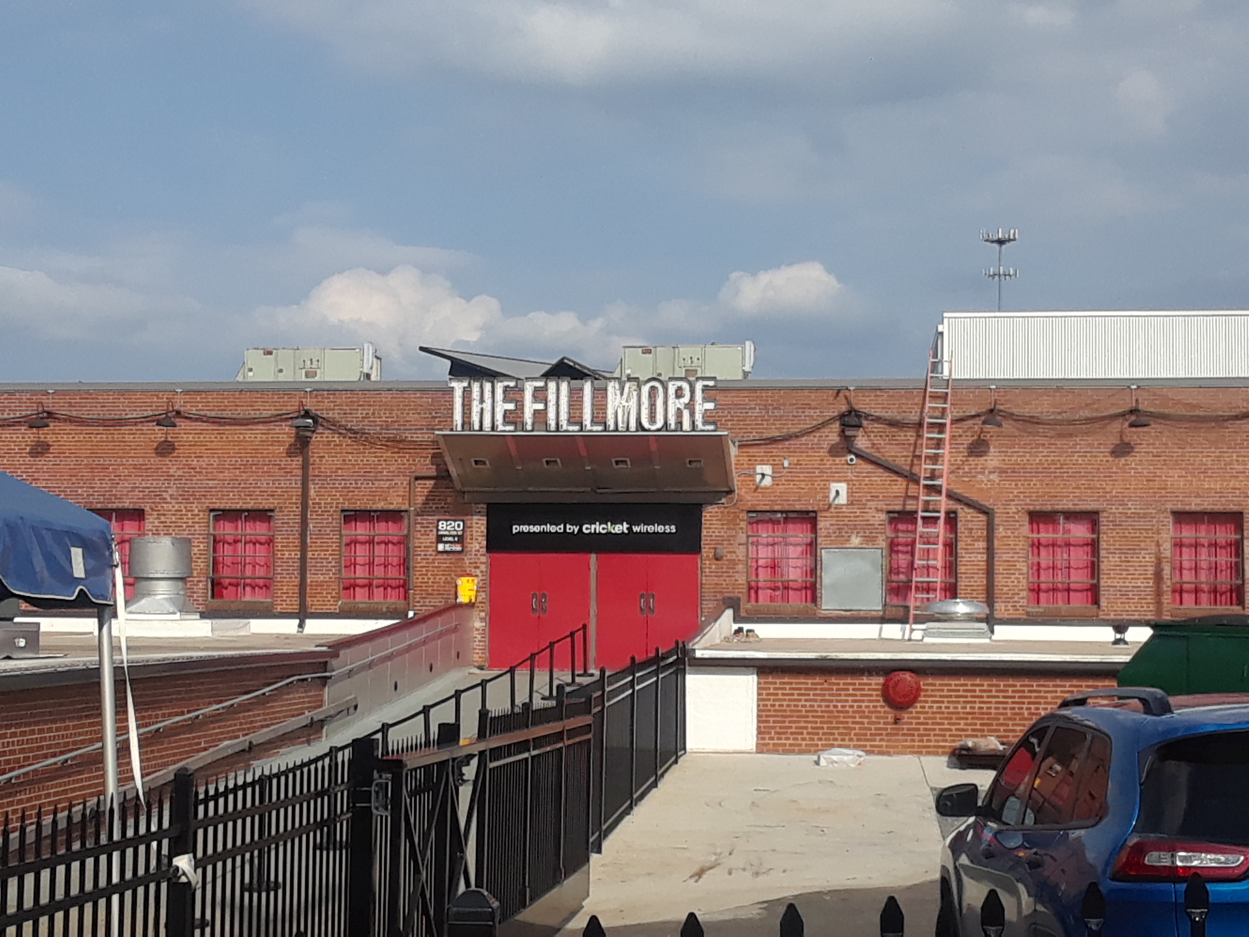 The Fillmore Charlotte, part of the AvidxChange Music Factory in Charlotte, North Carolina.